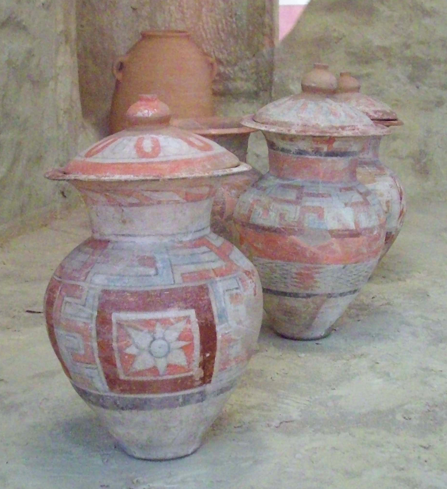 Pieces of Iberian pottery.